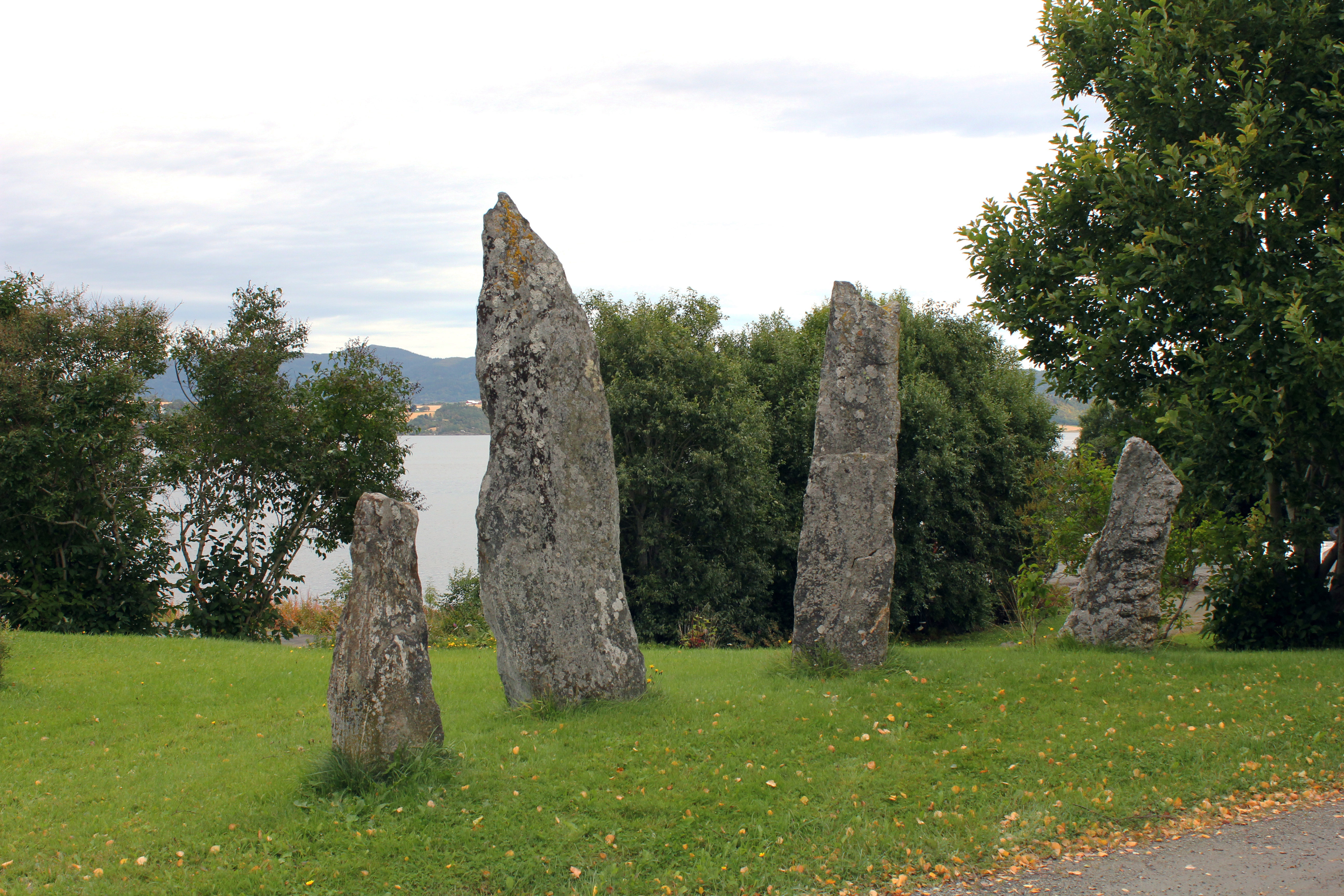 Menhirs erected in the urban area Børsa, SW of Trondheim, Norway.